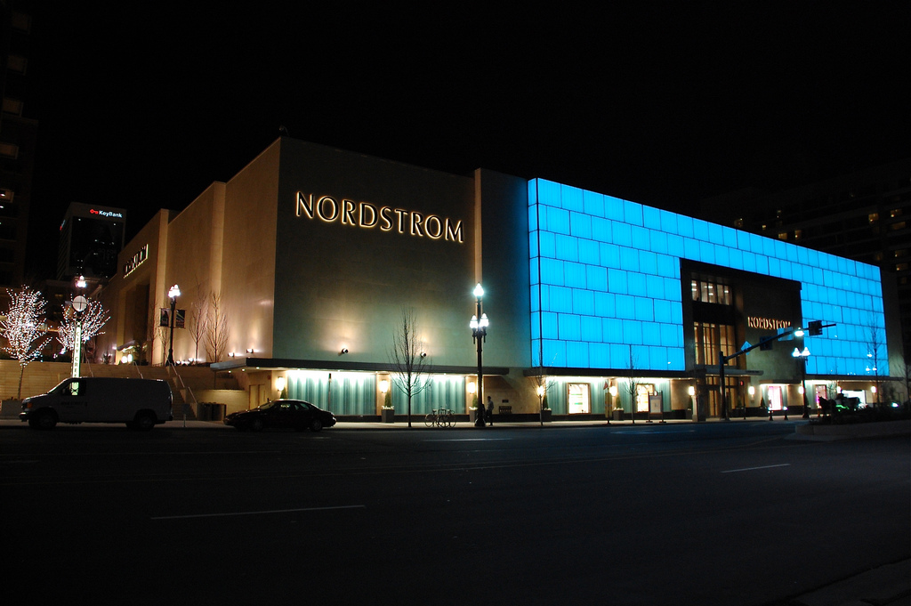 Downtown Salt Lake City, Utah, USA Nordstrom, West Temple Entrance facade at night. Picture taken March 21st, 2012 on the eve of the grand opening.